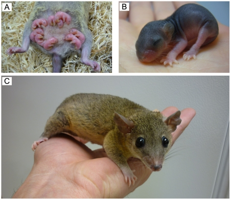 The Grey Short-tailed Opossum (Monodelphis domestica). A: Opossum pups at P7, attached to the mother's abdomen; B: Opossum pup at P28; C: Fully grown opossum.